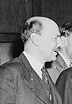 British Prime Minister Clement Attlee during the Potsdam Conference, August 1st, 1945.